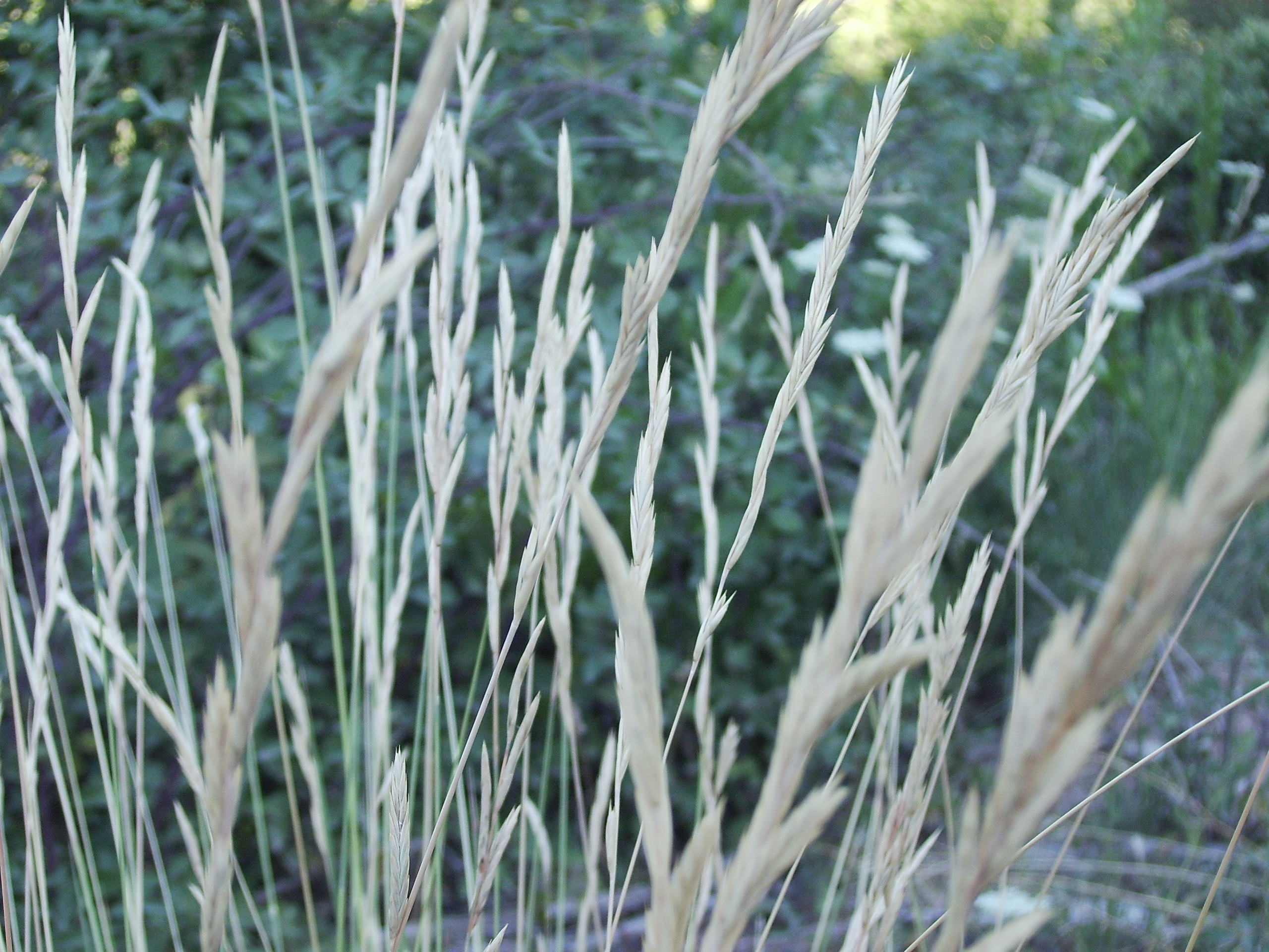 Image:Fenàs0034.JPG BRACHYPODIUM PHOENICOIDES(fenàs)in july 2006 at Castelltallat,Catalonia My own work